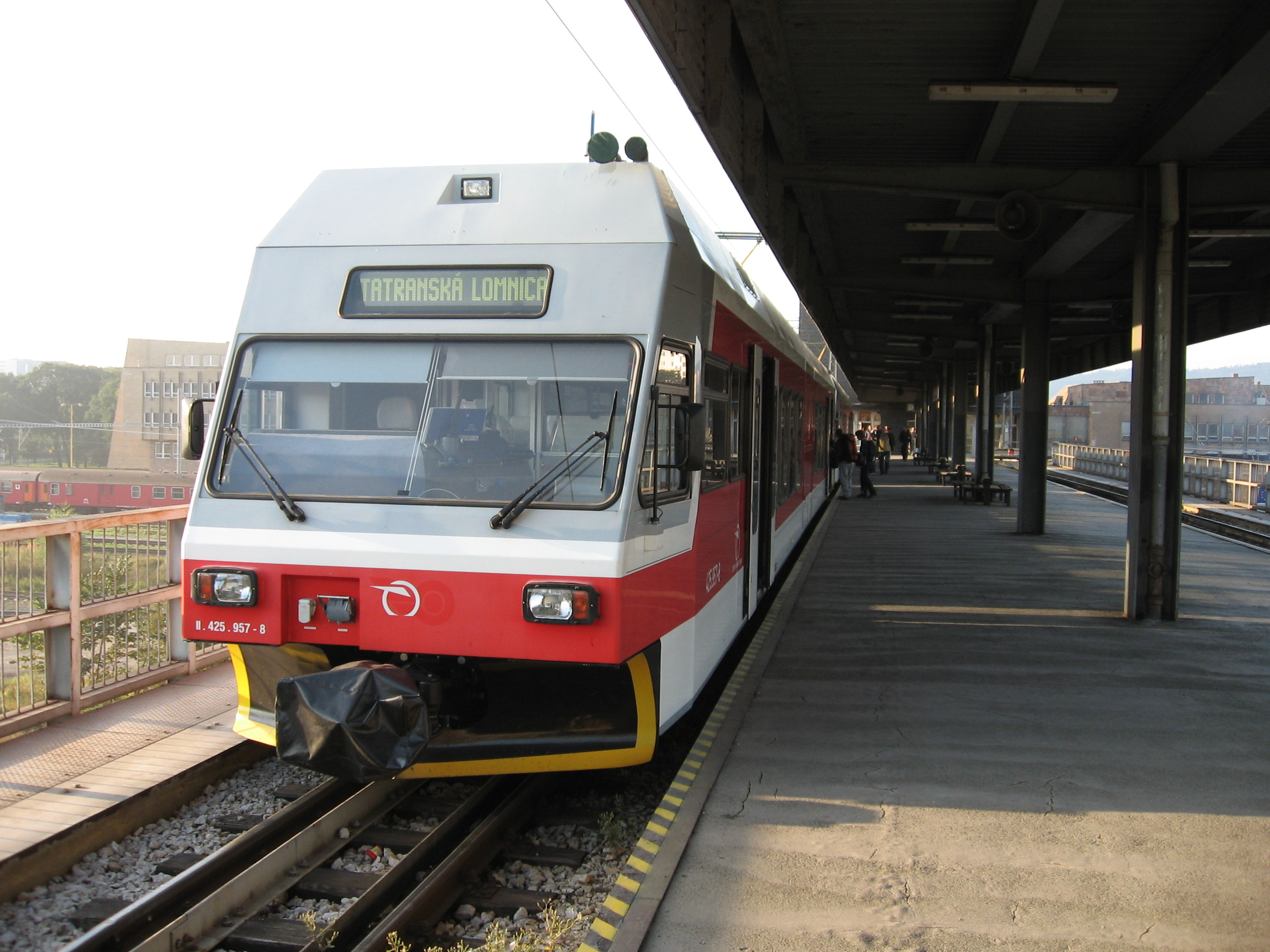 Tatra's electrical Railways, Poprad